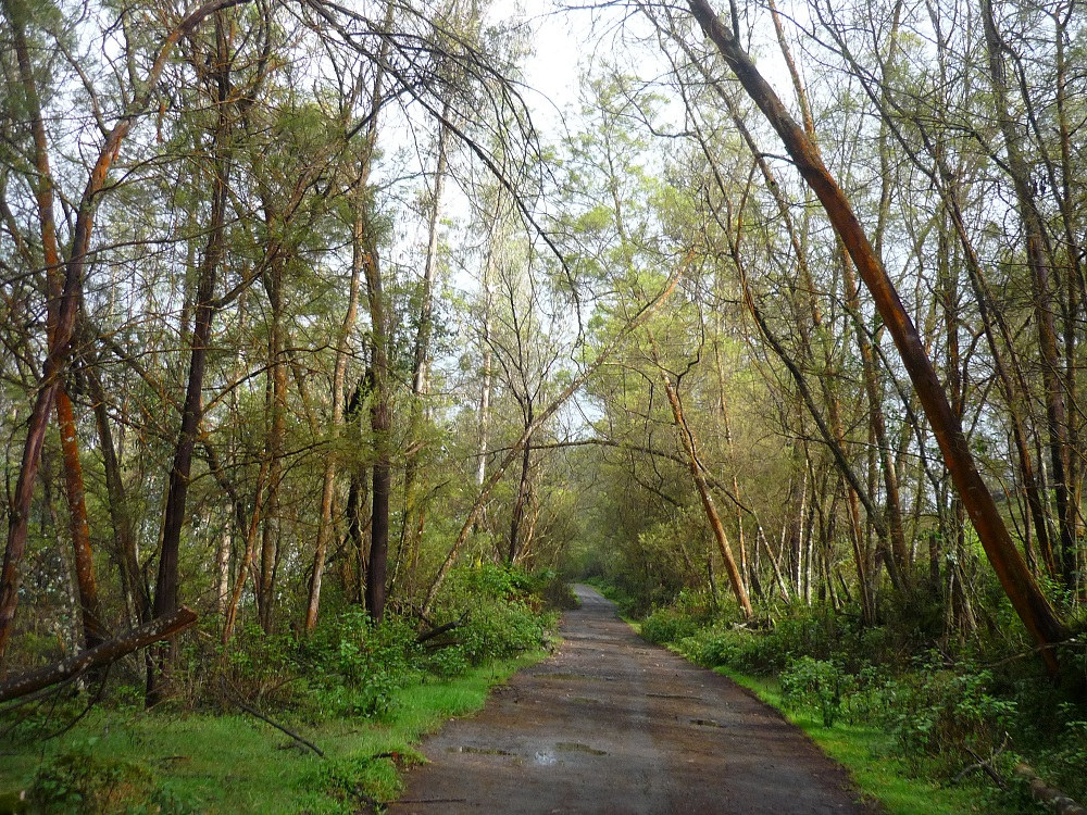 Road Inside Mukurthi National Park